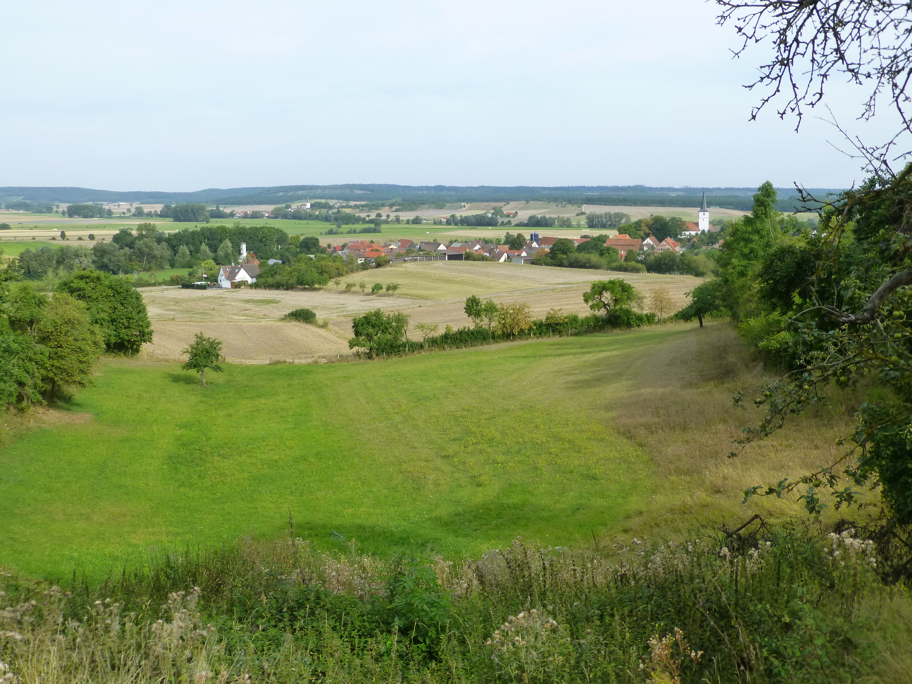 Meadow in Middle Bavaria, Deutenheim part of Sugenheim. Two churches.